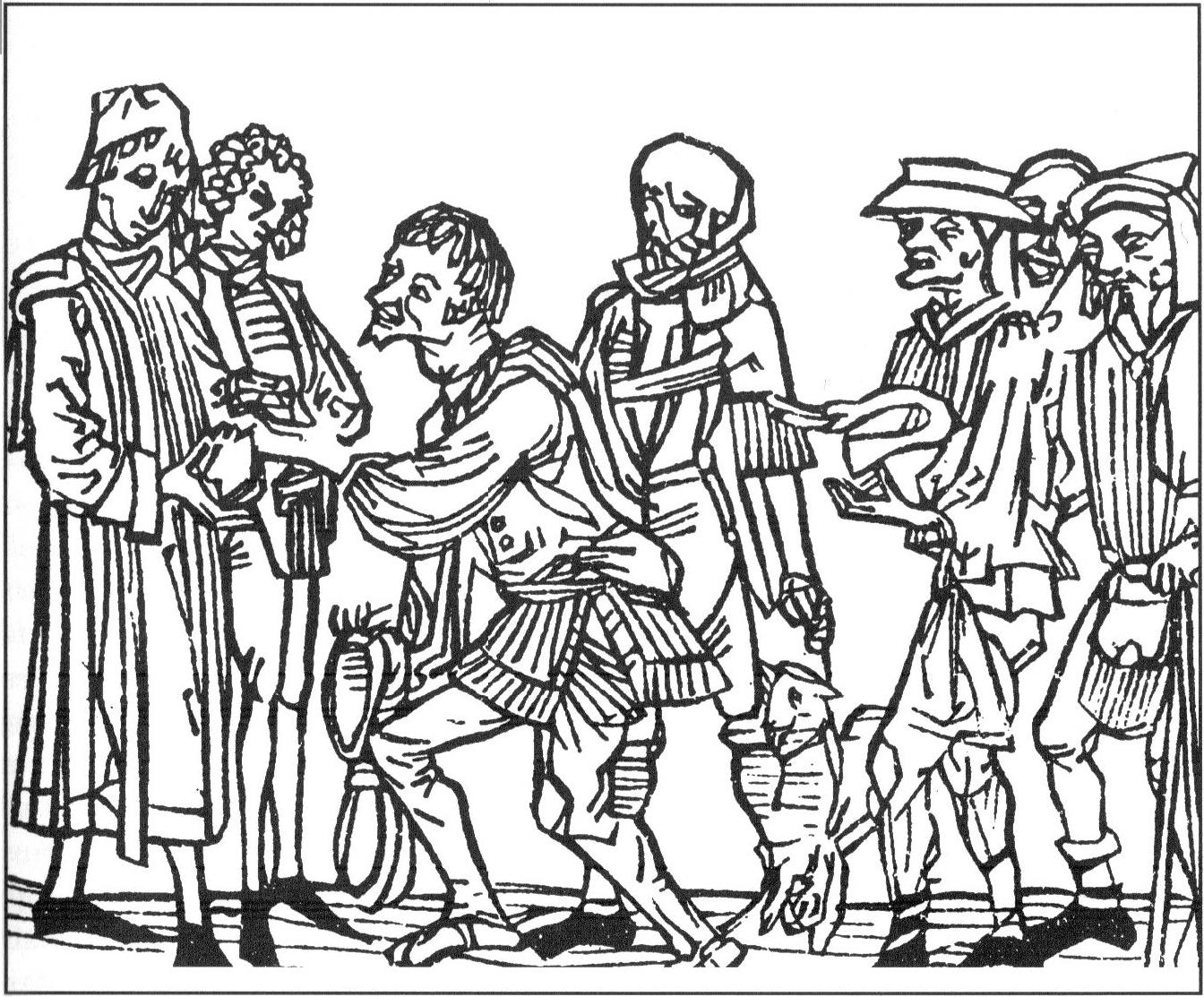 People giving their "Tithe" (dt. "Zehent") to the Clergy